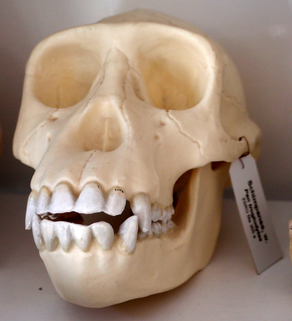 Model from the zoological collection Rostock, Germany. see also for more information on the models